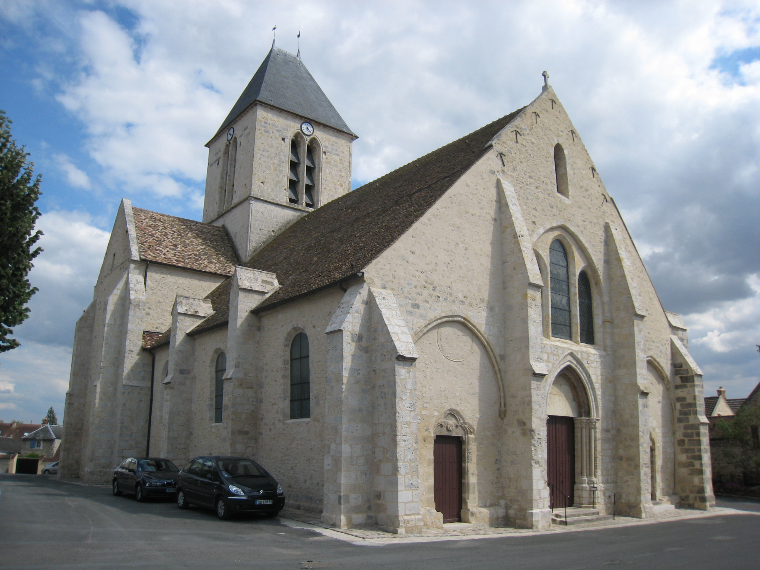 Church of Étréchy (Essonne, France)